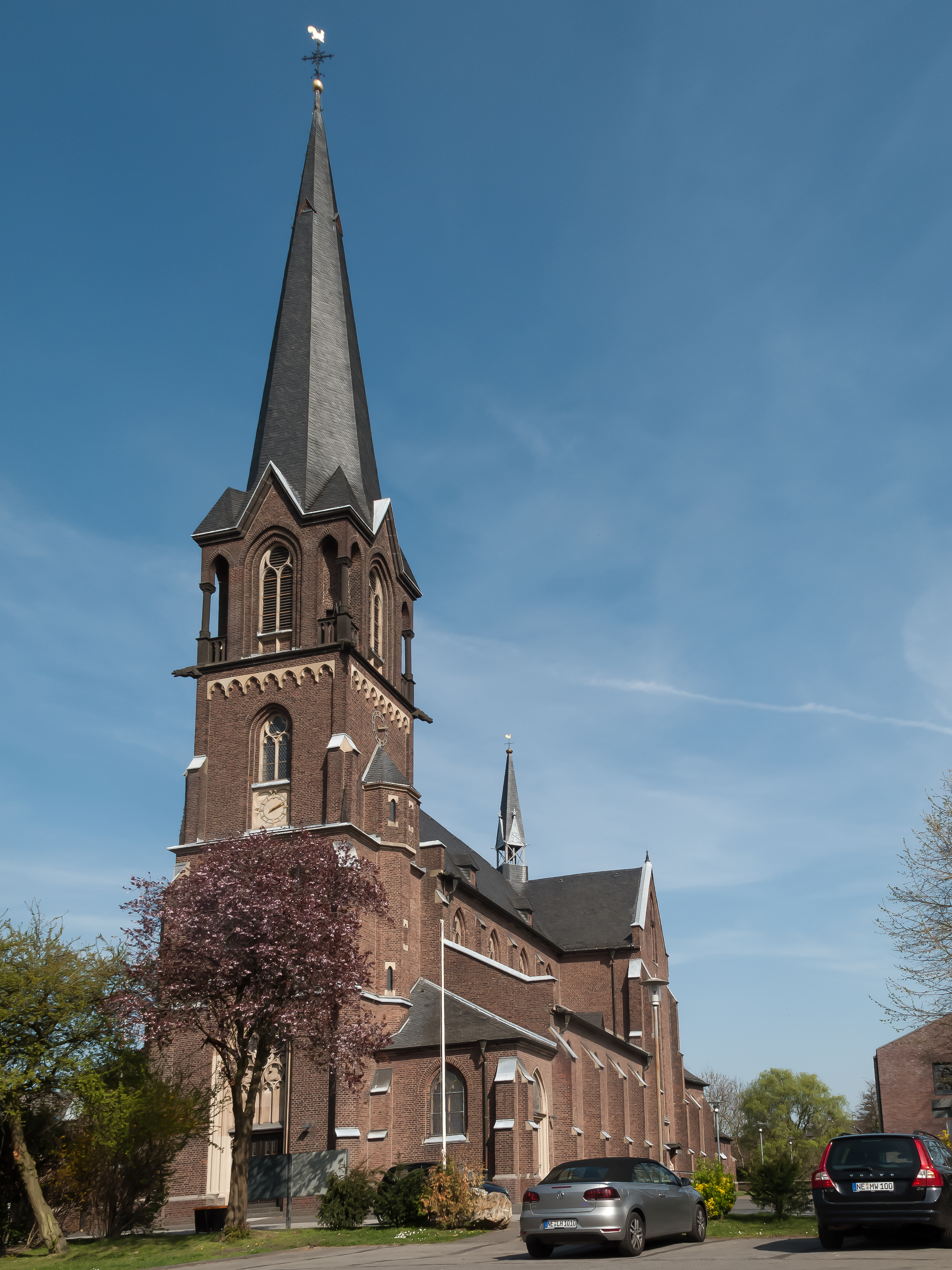 Glehn, church: die katholische Pfarrkirche Sankt Pankratius This is a photograph of an architectural monument.